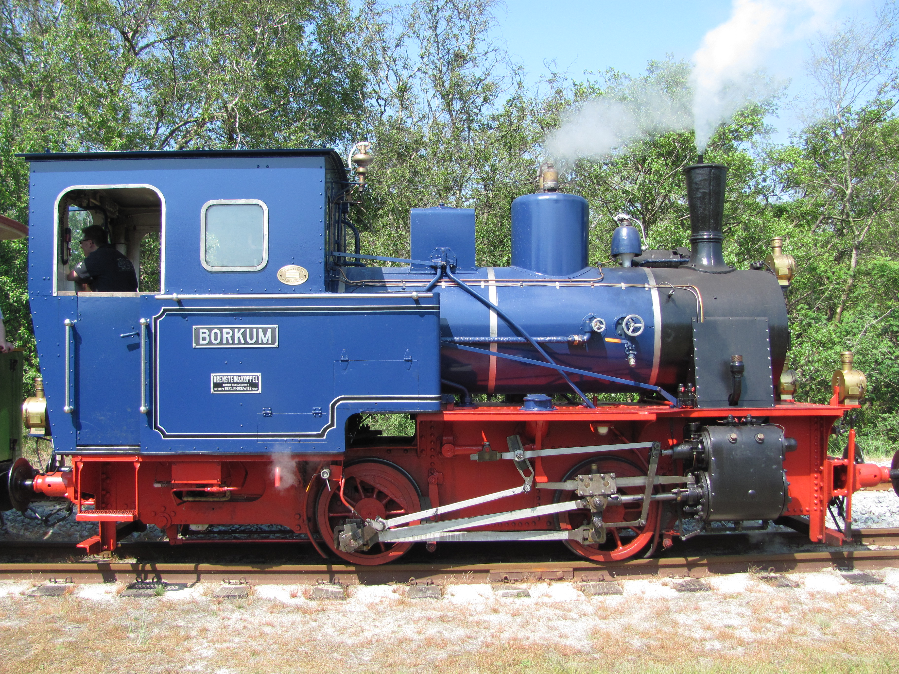 Borkum (III) of Borkumer Kleinbahn